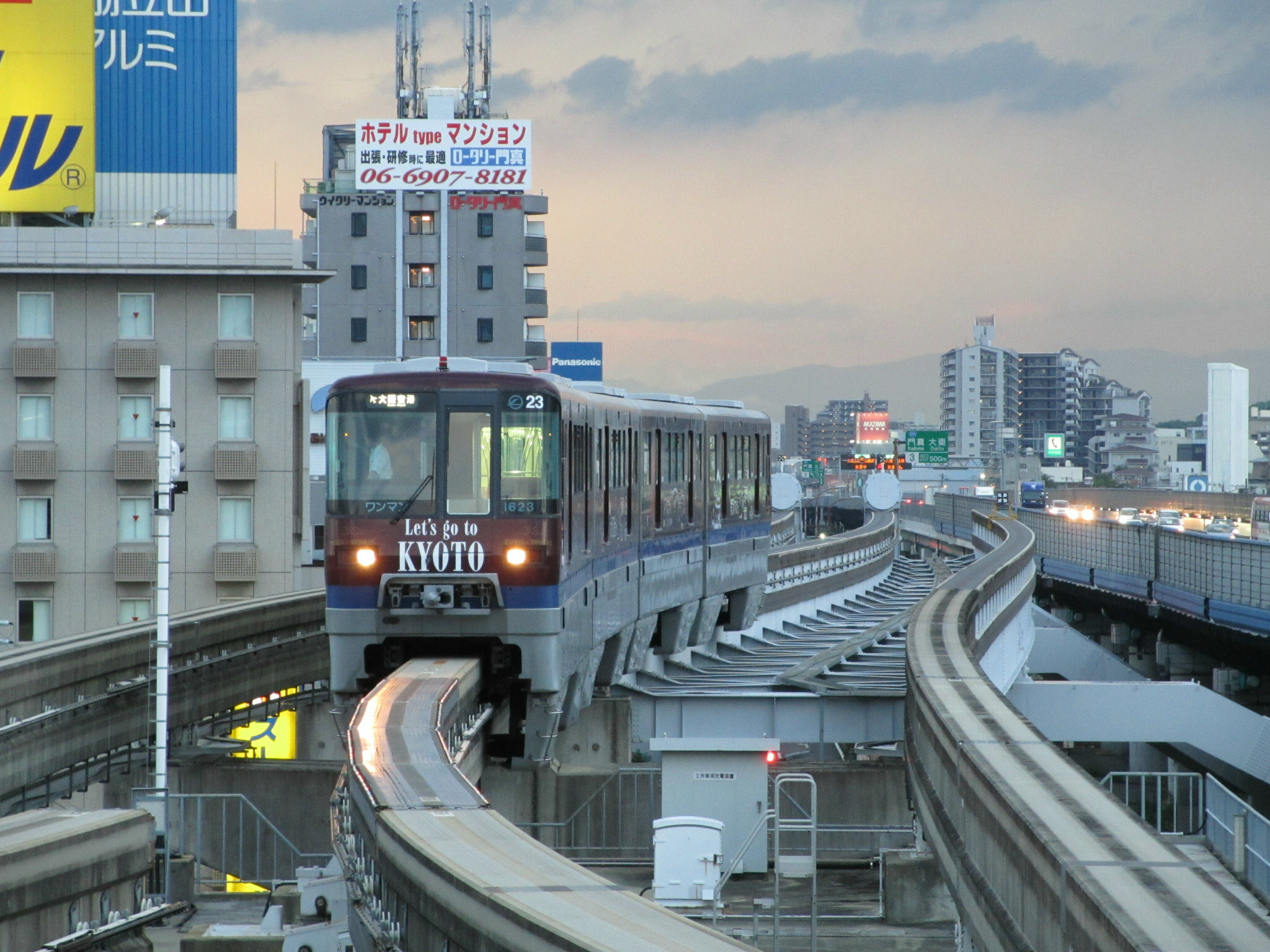 Osaka-monorail Kadoma Station platform